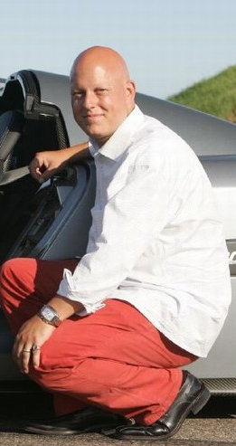 A Picture of Christian von Koenigsegg